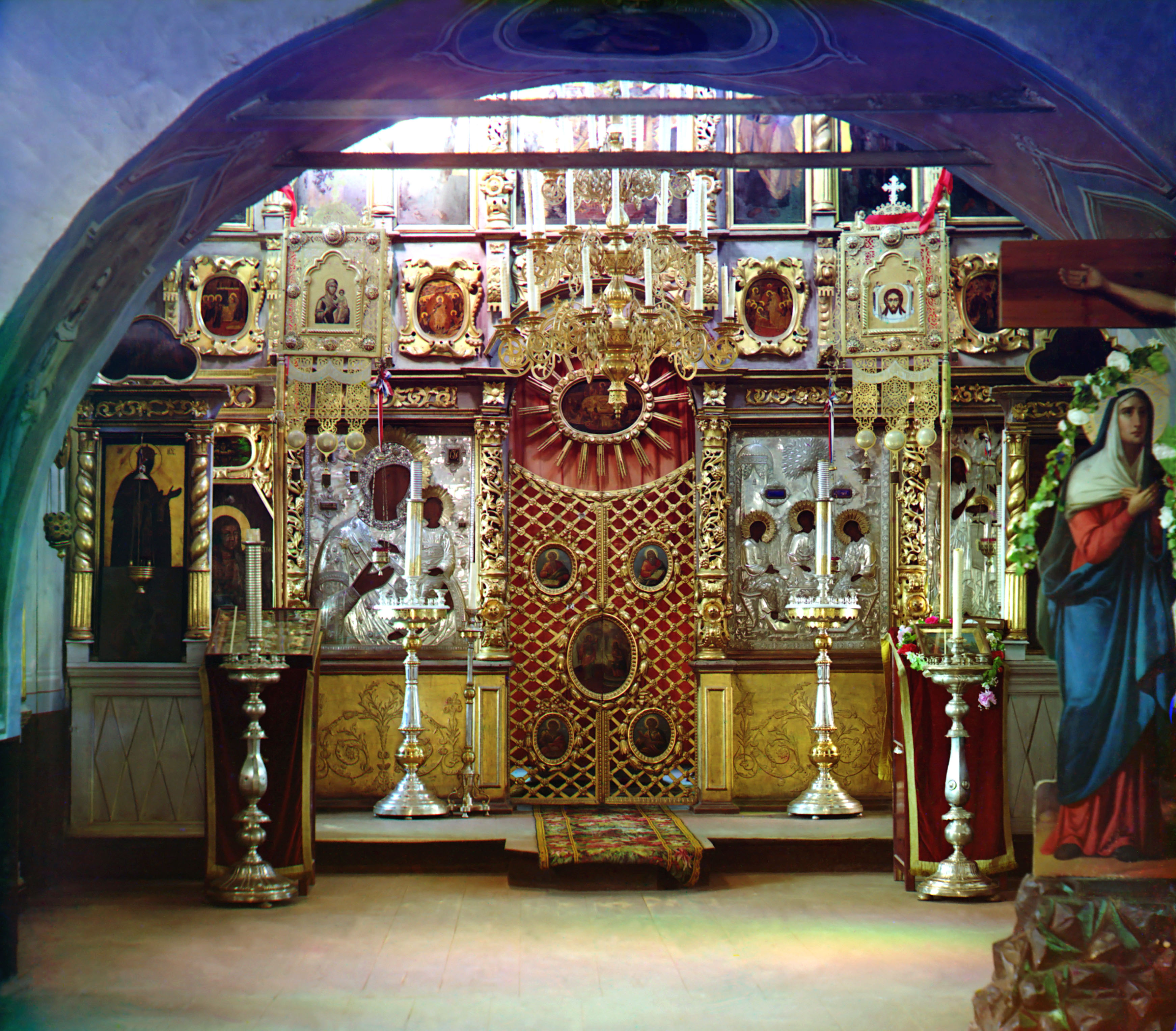 Original Description: Iconostasis in Borodino's church. Borodino.